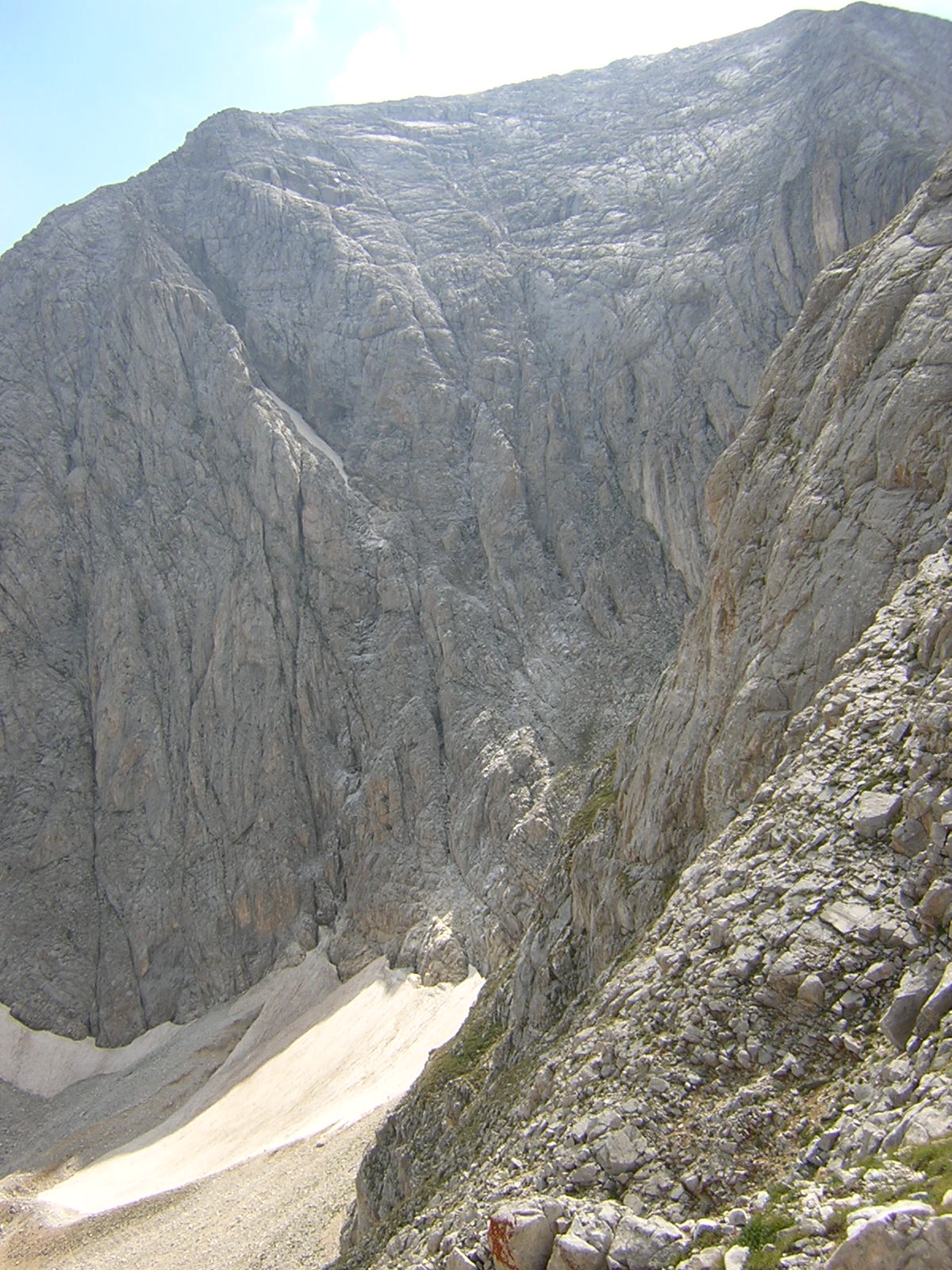 the North face of Vihren, Pirin mountains, Bulgaria